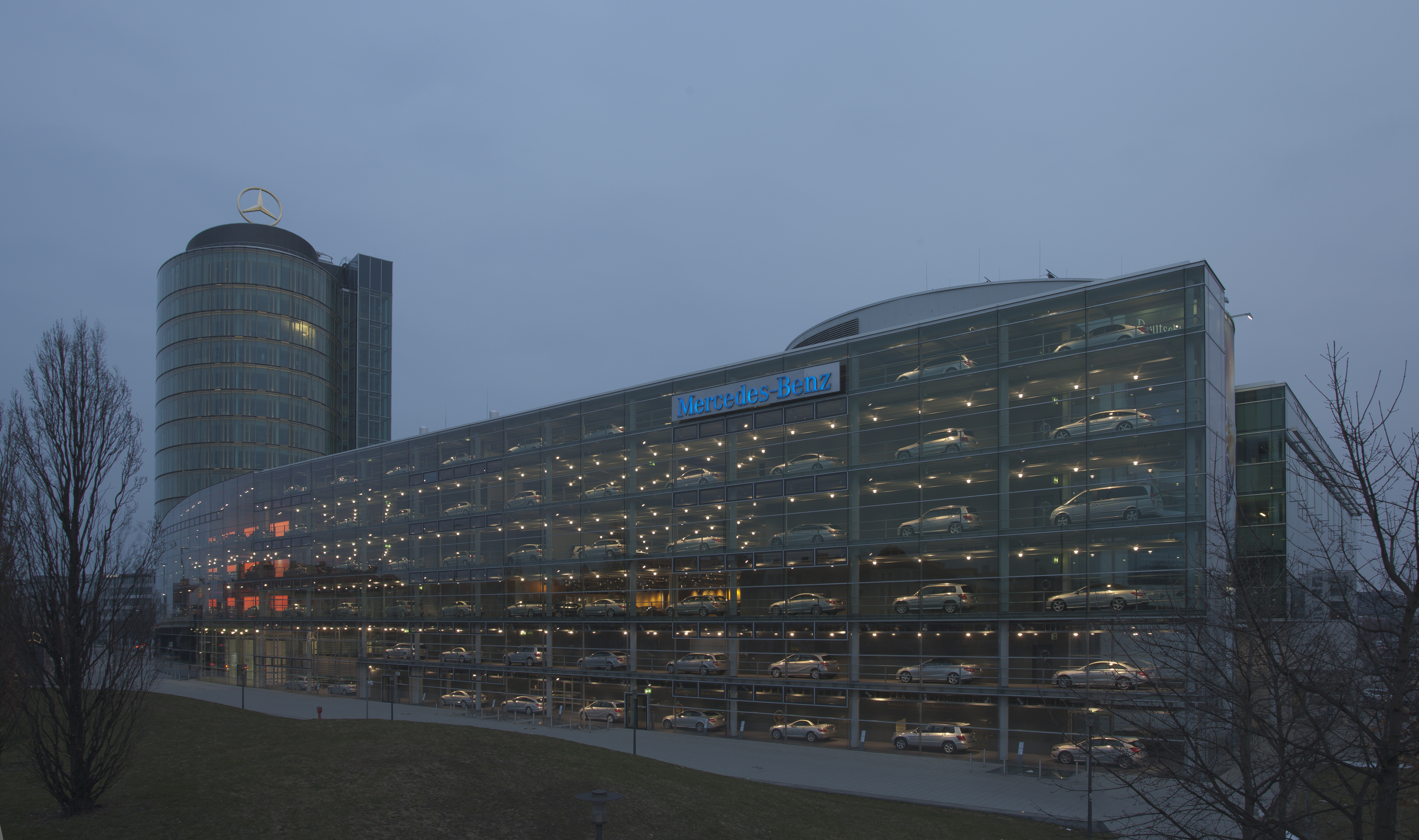 Mercedes-Benz dealership, Munich, Germany